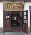 The Kazakov Galery hosts temporary ezhibitions.